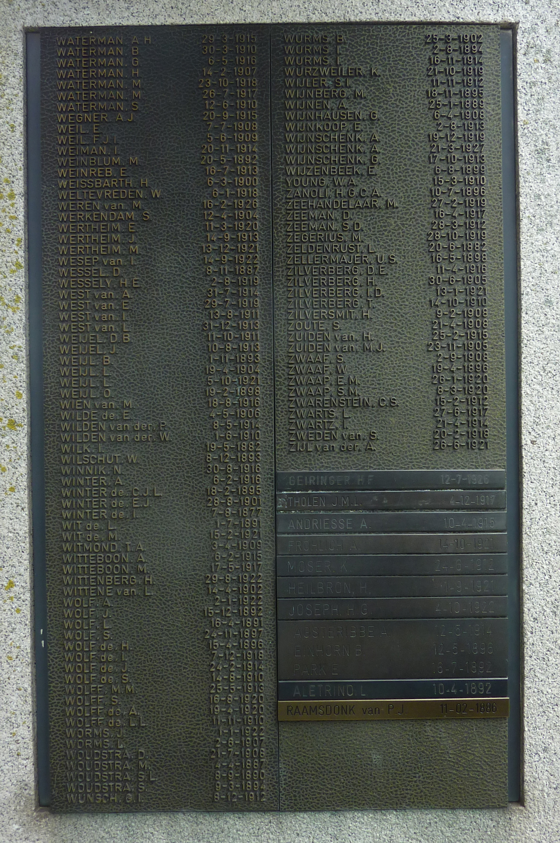 12th of 12 bronze plates on the Dutch Memorial in the Mauthausen concentration camp